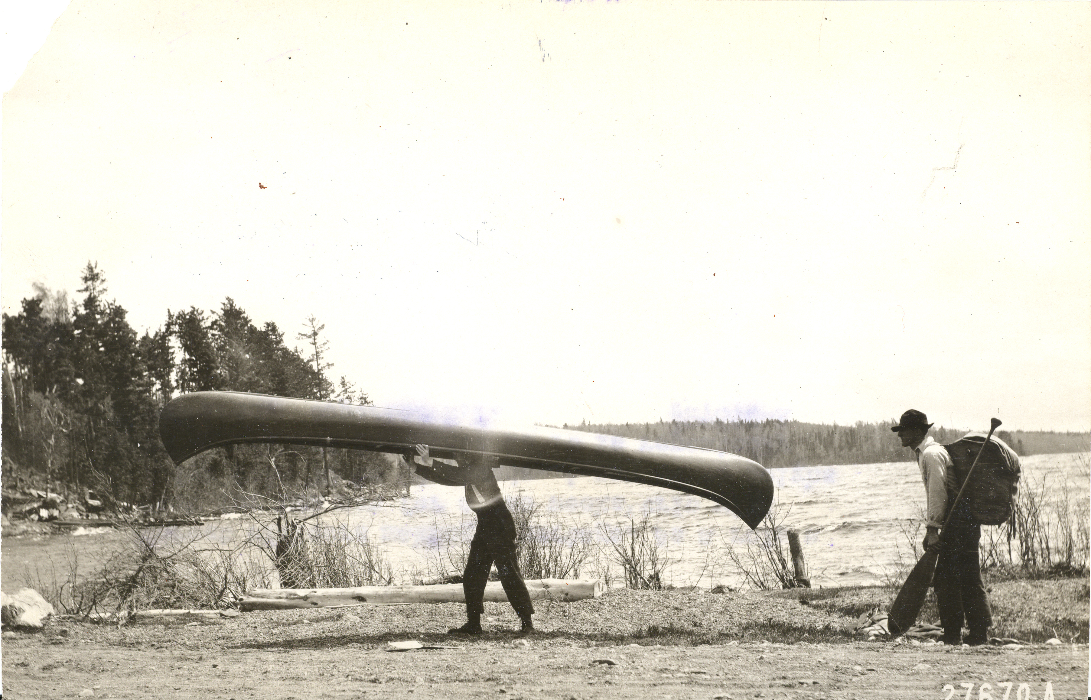 Typically a pack for two men for a two week trip will would weigh from 70-90 lbs. A new canoe weighs 75 lbs. and increases as it is continually repaired.